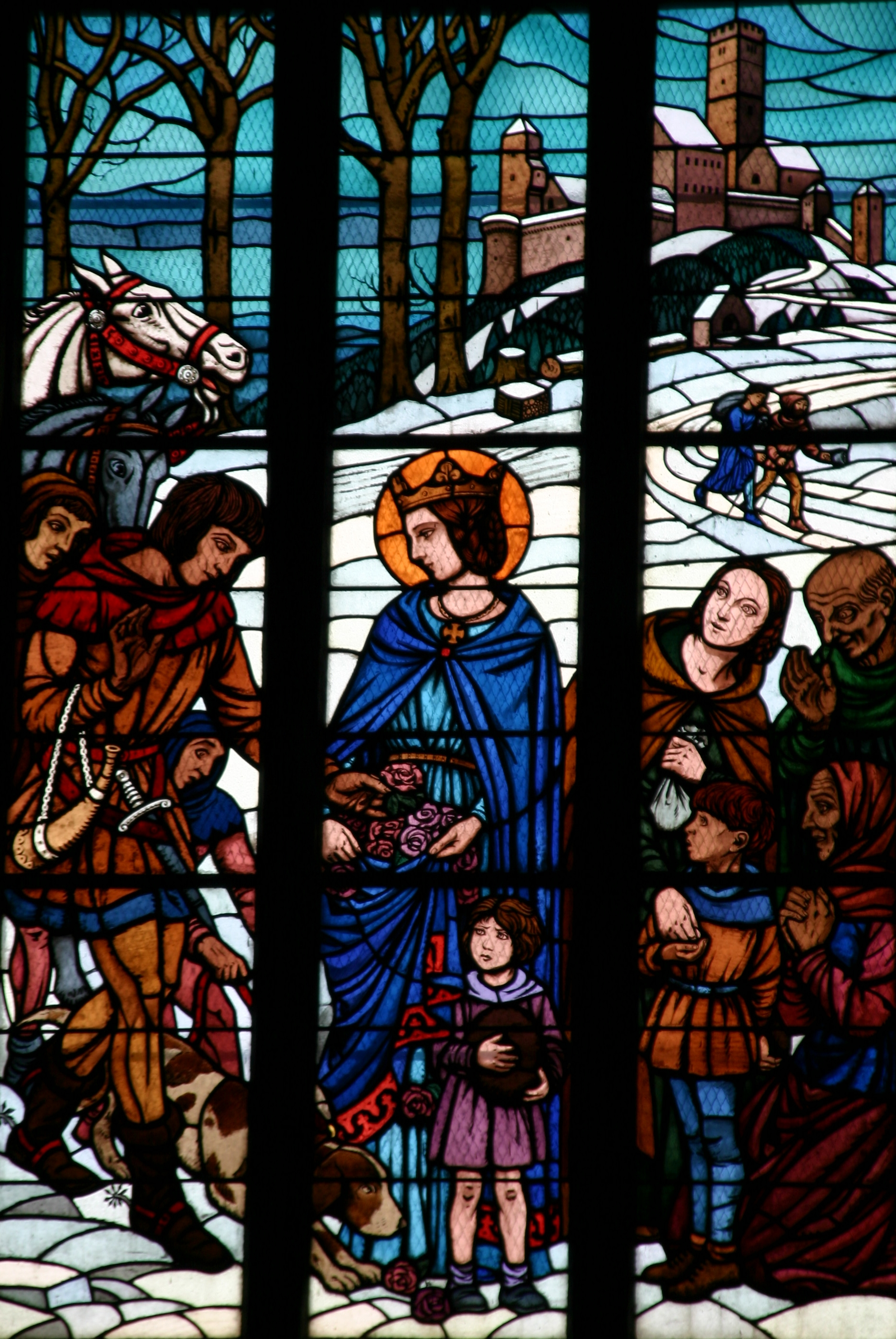 Stained glass window of Saint Elisabeth of Hungary in the cathedral of Sao Pedro de Alcantara Petrópolis, State of State of Rio de Janeiro Brazil .